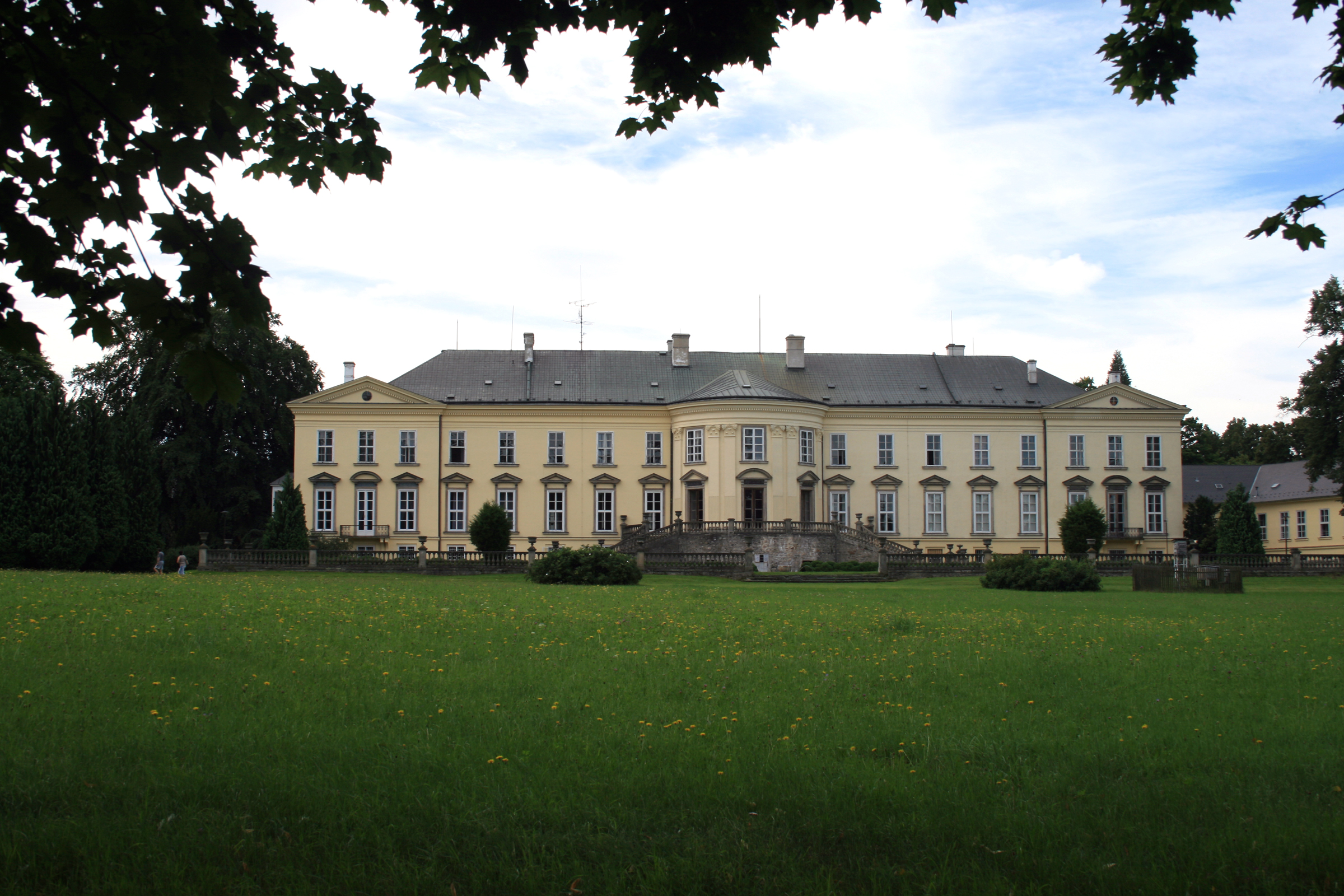 Castle in Nové Hrady, South Bohemia, Czech Republic